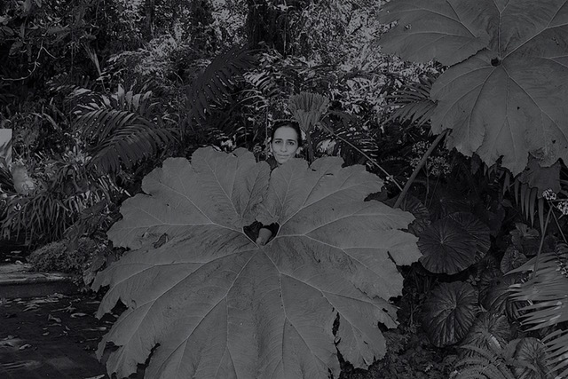 Maribel Portela in Jalapa, 2014